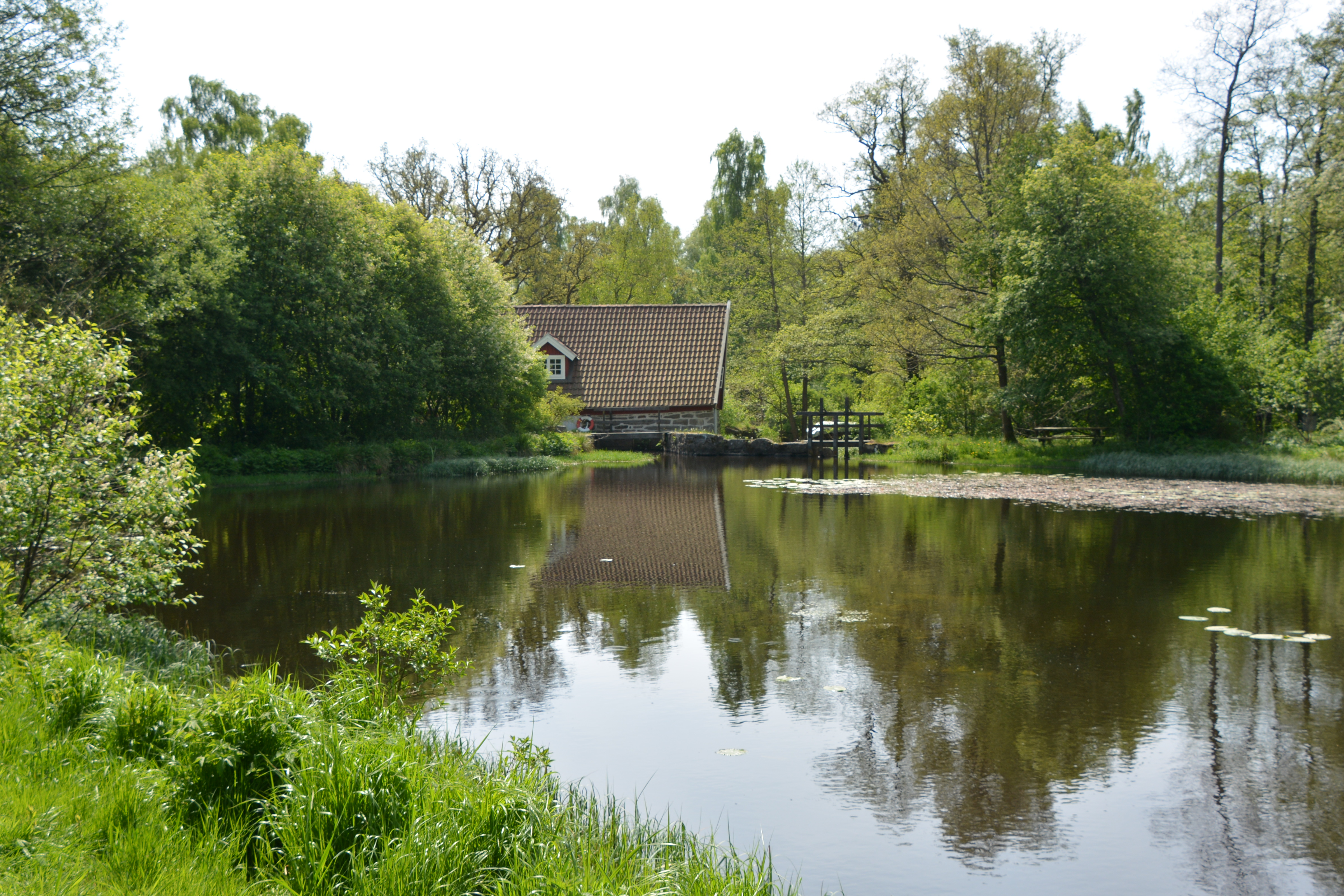 Höörs mölla med kvarndammen i Höörån